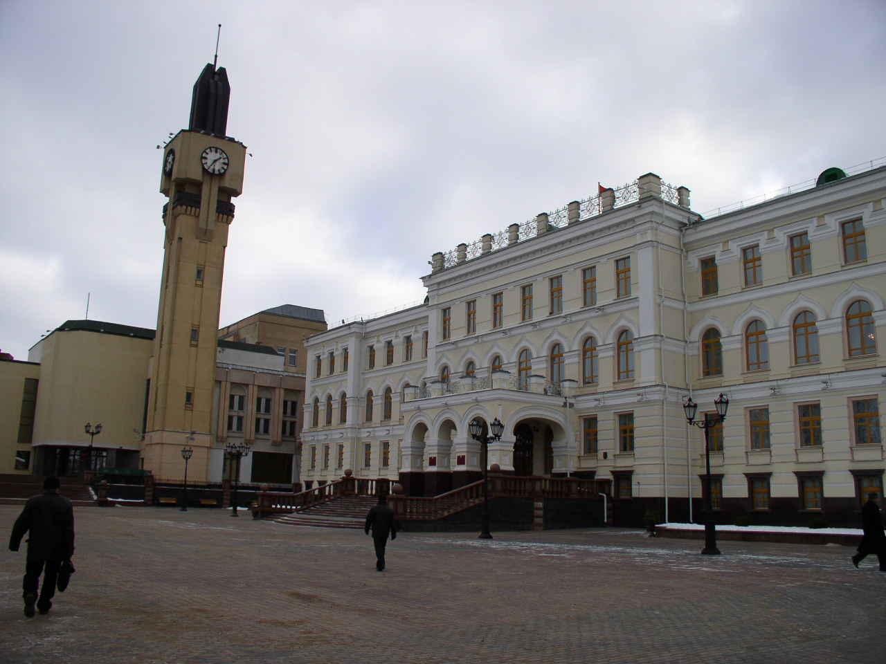 Ex-Women's Diocesan school. Currently — Vitsebsk province administration. Vitsebsk, Belarus.